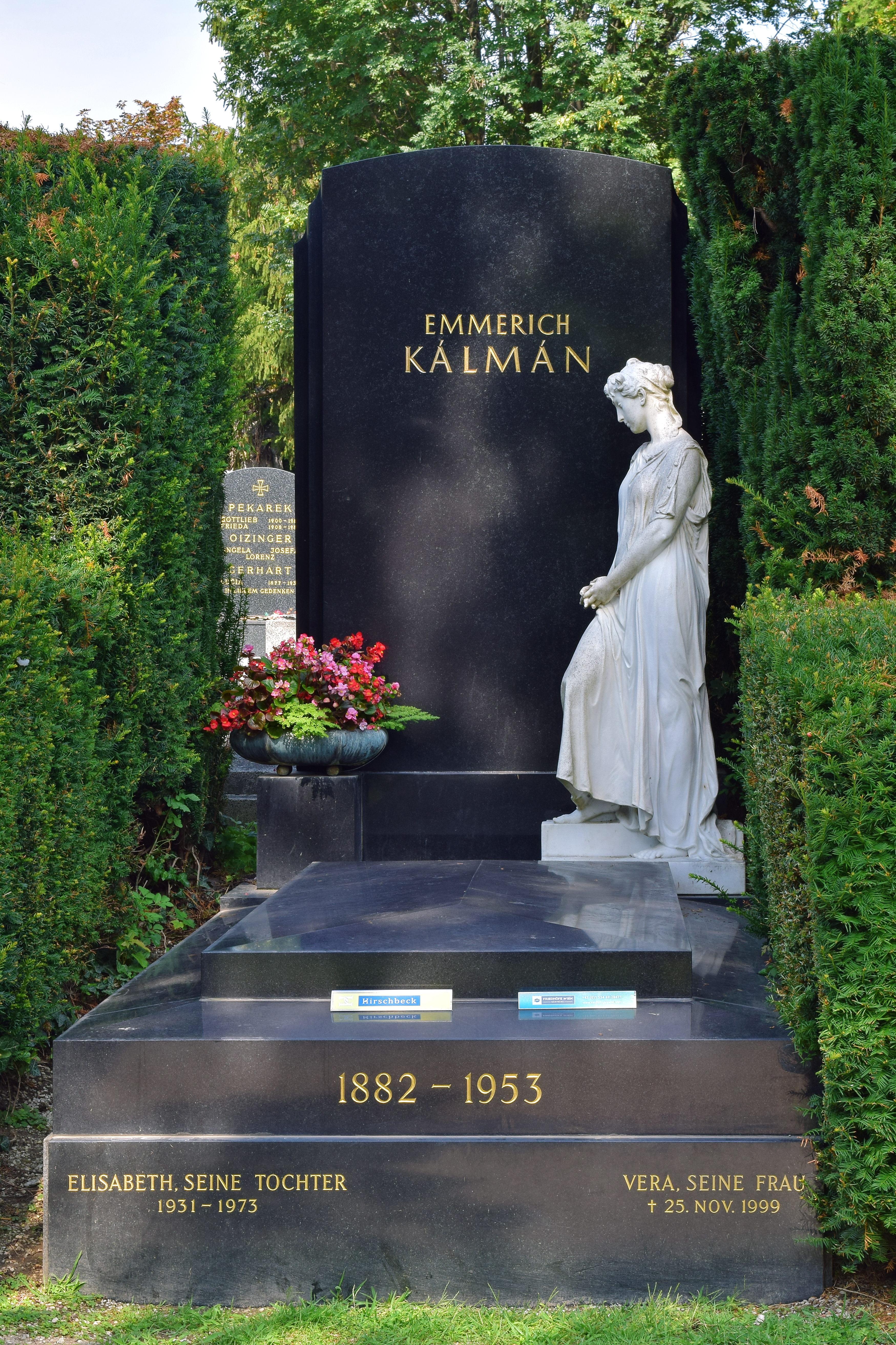 Grave of honor of Emmerich Kálmán at the Wiener Zentralfriedhof